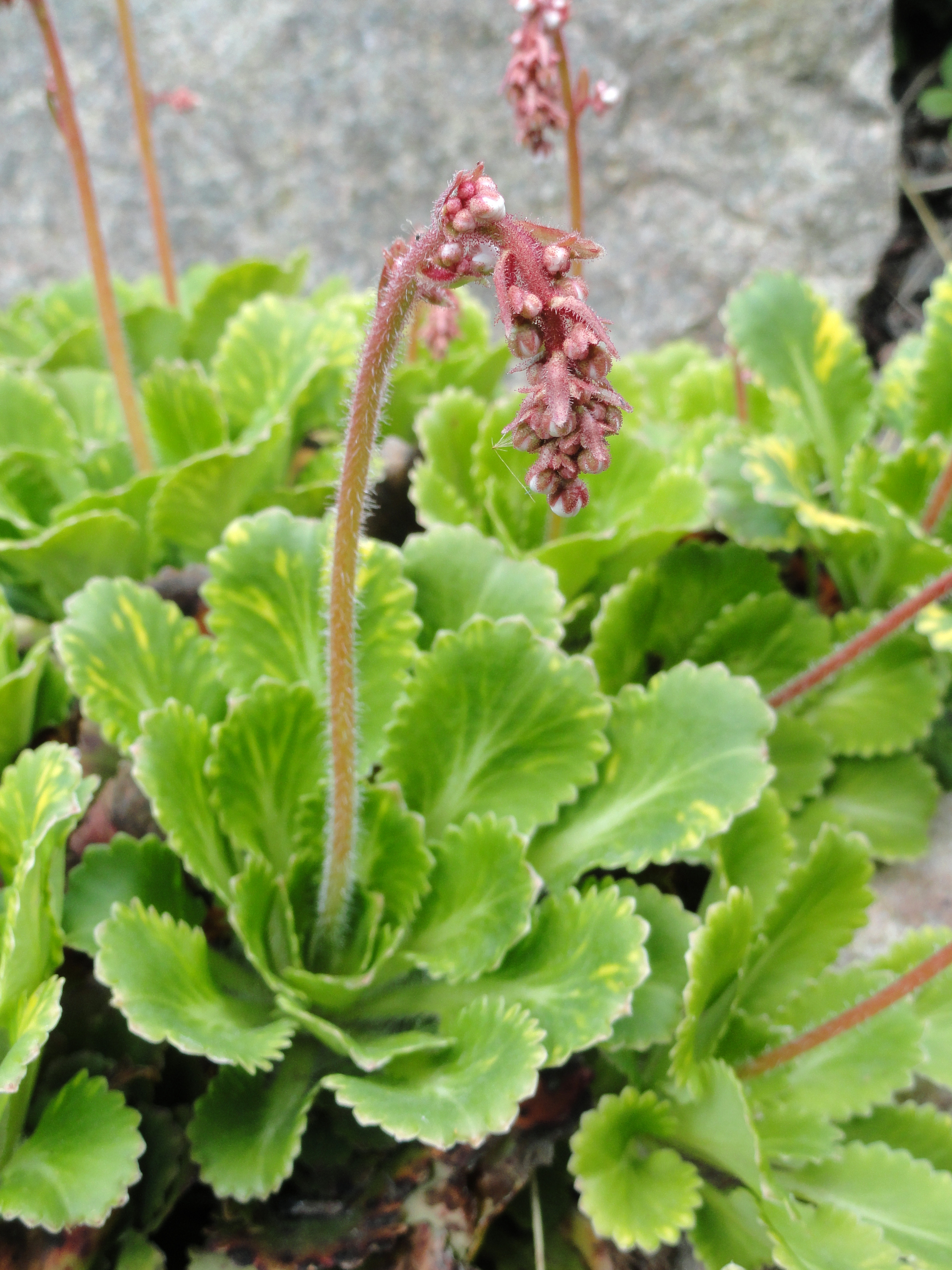 Botanical specimen in the University of Copenhagen Botanical Garden, Copenhagen, Denmark.